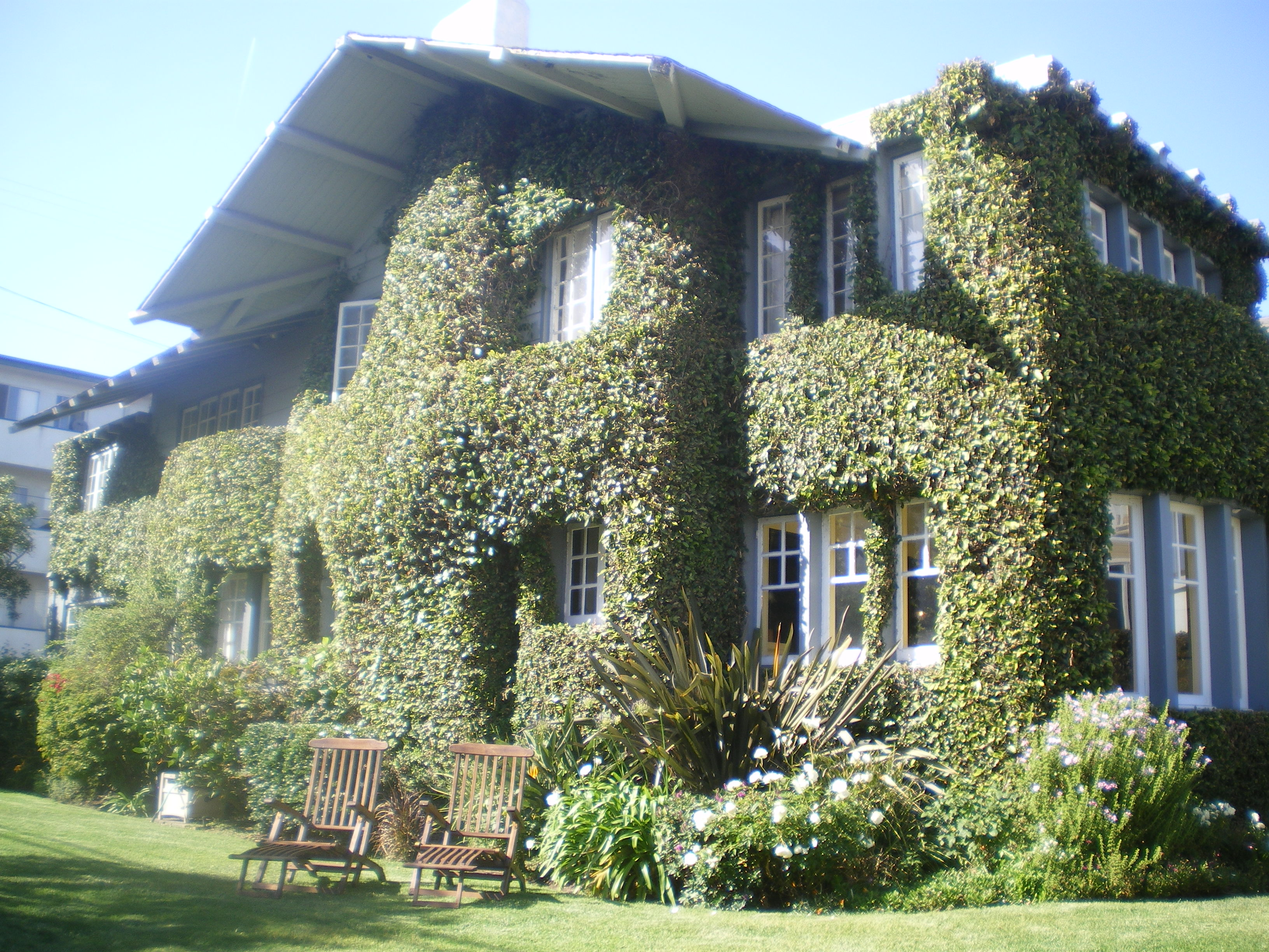 Warren Wilson Beach House (The Venice Beach House), 15 Thirtieth St., Venice, California